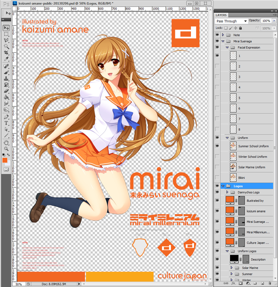 Mirai Suenaga with summer school uniform illustrated by Koizumi Amane.